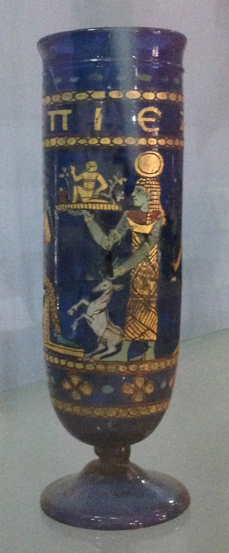 Polychromatic, gilded glass vase of Meroitic manufacture excavated in Sedeinga, on the west bank of the Nile. On display at the permanent exhibition in the National Museum of Sudan in Khartoum. The Greek letters read "Drink and you shall live"